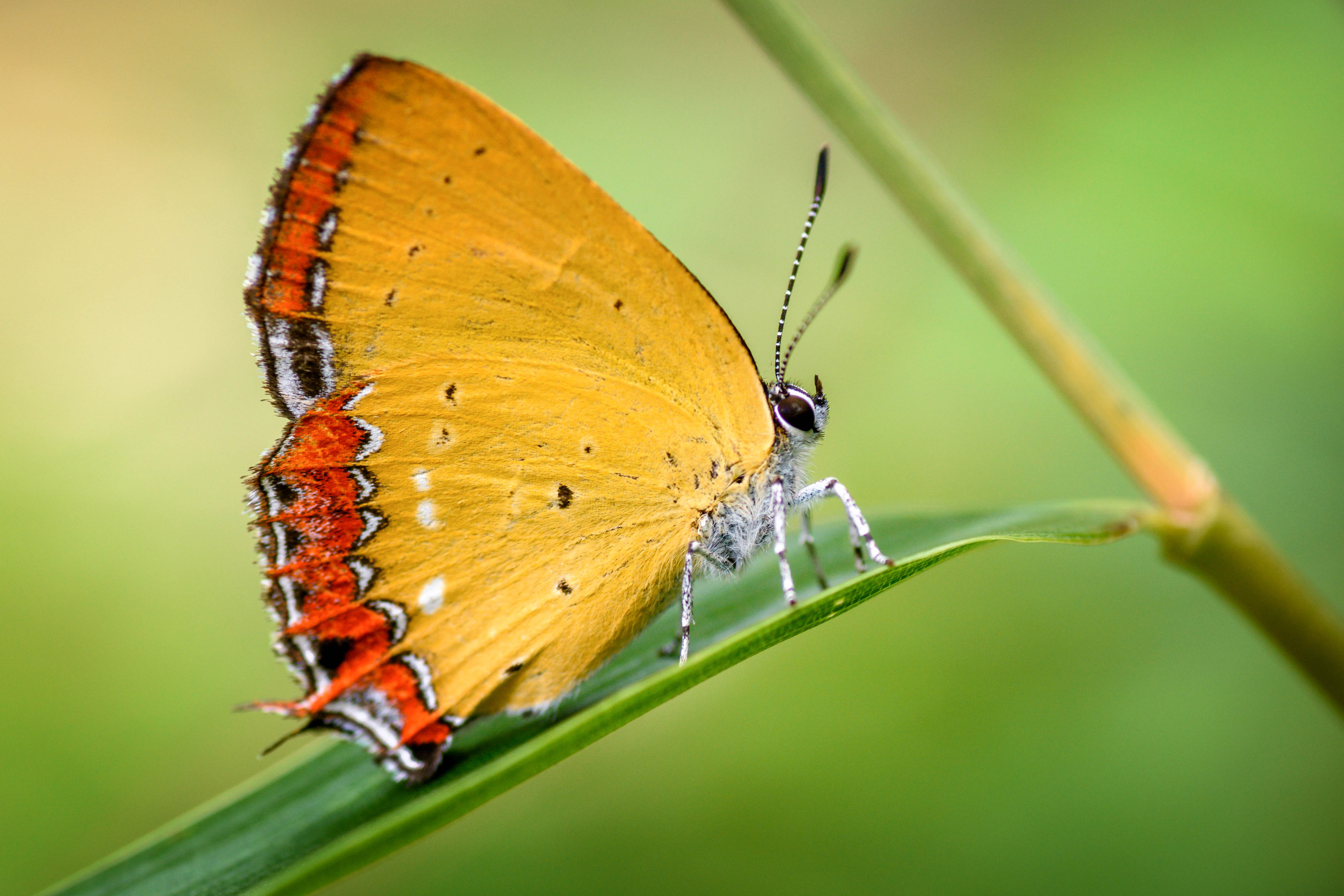 Butterfly